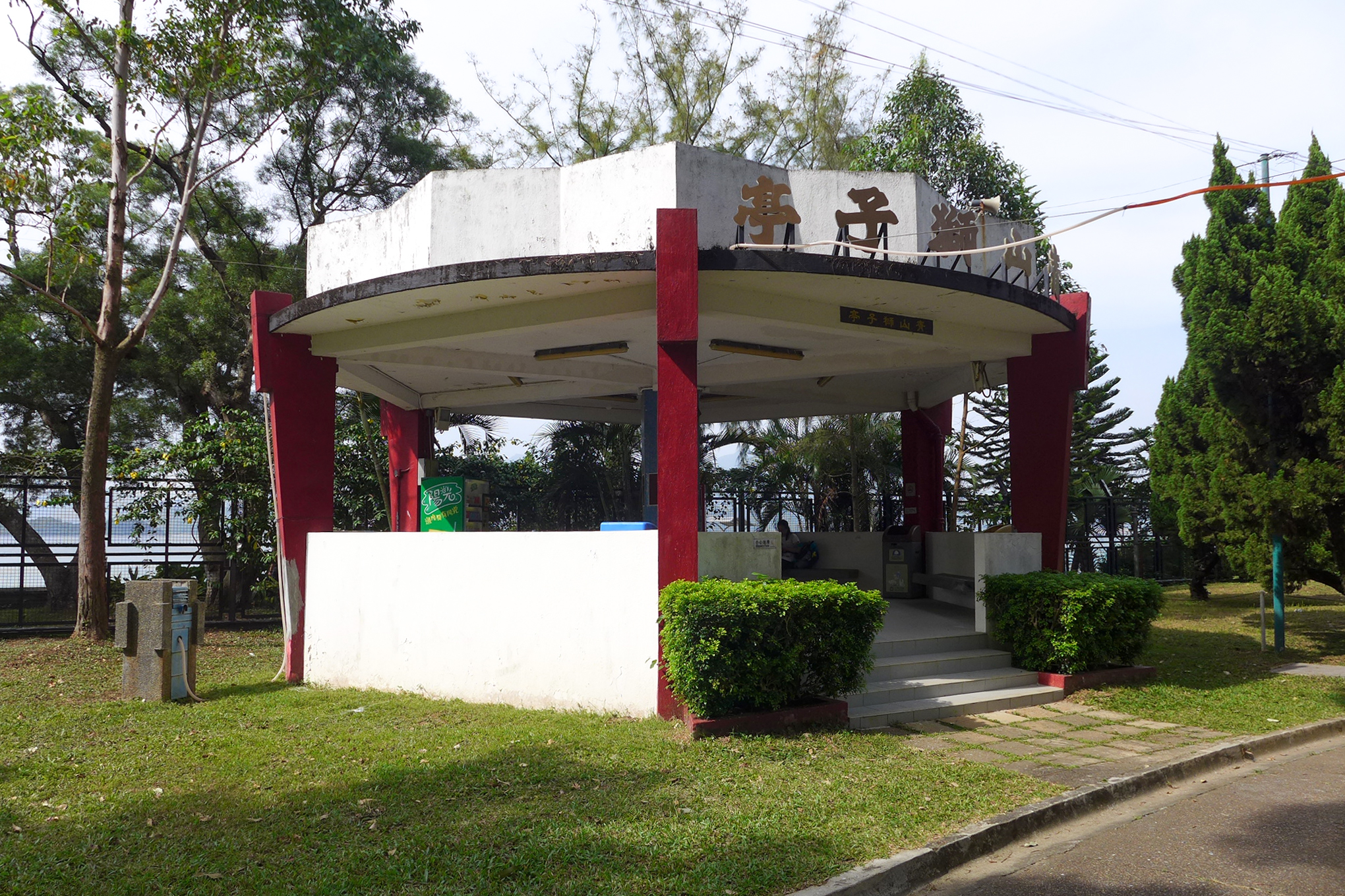 WKS Youth Village Lion Pavilion